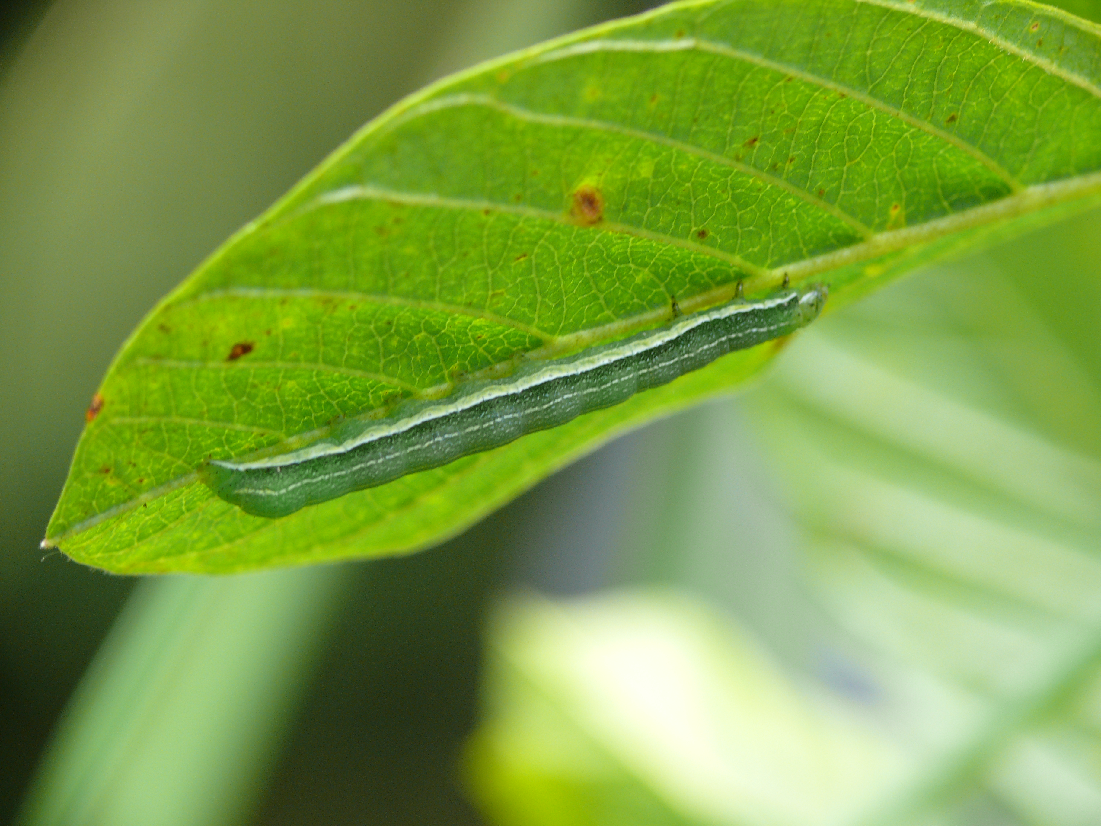 Bordered Sallow (Pyrrhia umbra), Vaterstetten, Bavaria, Germany